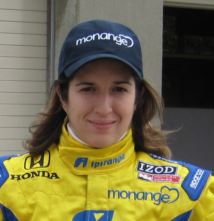 Dreyer & Reinbold Racing's Ana Beatriz (Bia Figueiredo) at the Indianapolis Motor Speedway for day 7 of practice (Fast Friday) for the 2010 Indianapolis 500 on Friday, May 21, 2010.